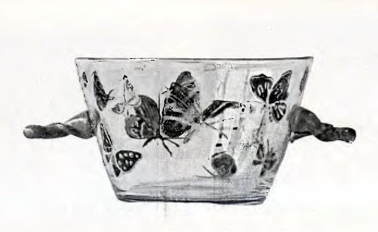 Glazed glass jug by Núria Solé. Magazine "Foment de les Arts Decoratives", 1921.